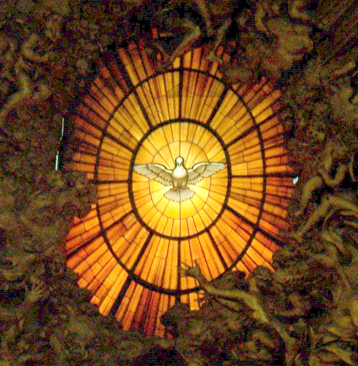 Taken in St Peters, Vatican City, Rome, Italy in May 2007 by Chris Sloan